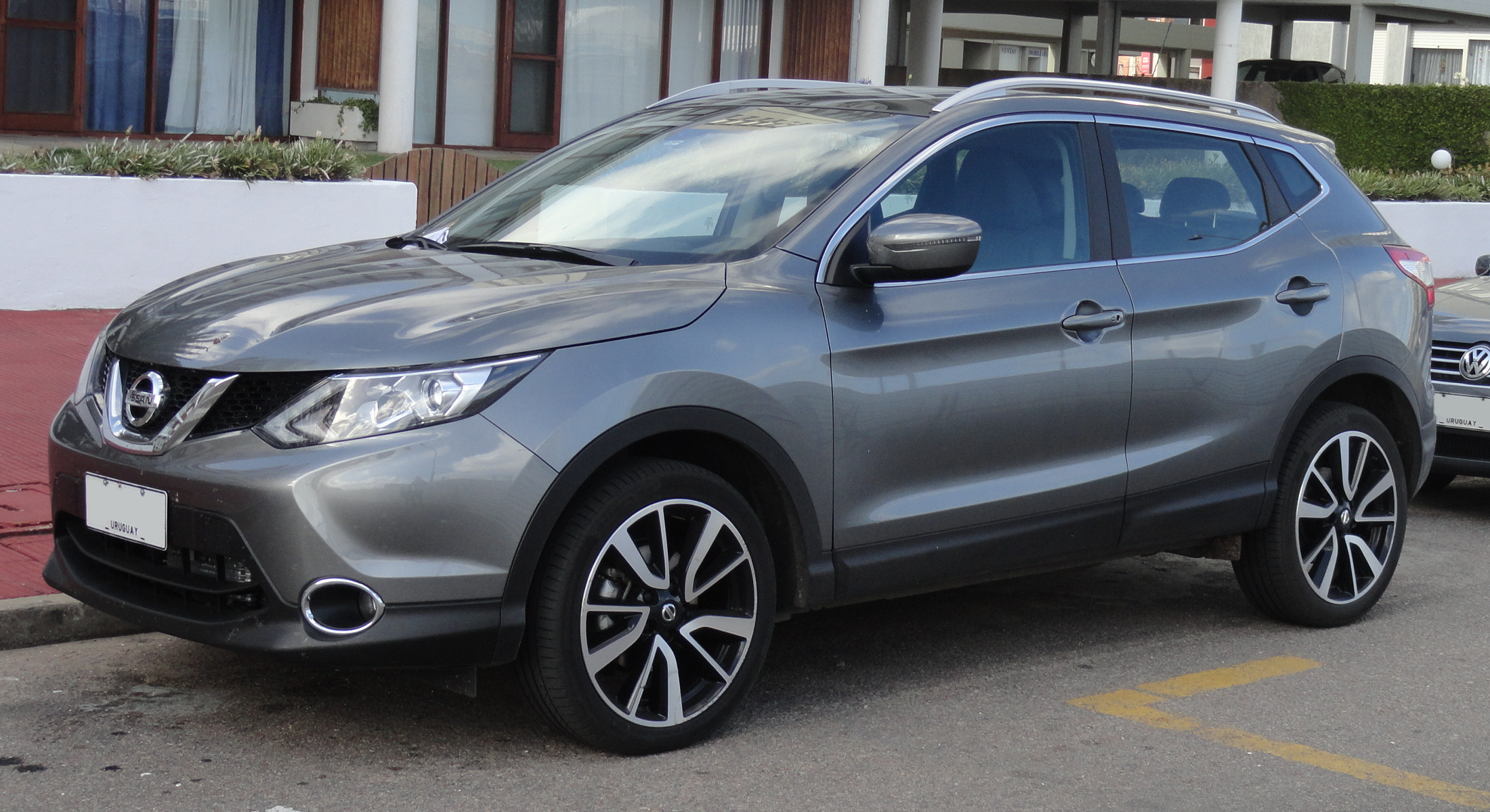 Nissan Qashqai 2015 photographed in Punta del Este